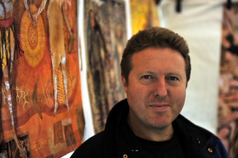 Gary John Orriss, artist (painting and photography), 2012 at the center of Berlin, Am Kupfergraben